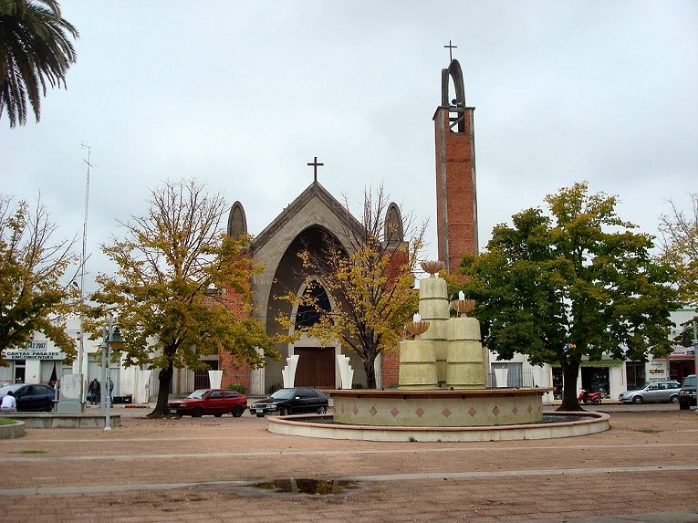 The Central Square of Carmelo, Colonia Department, Uruguay. Behind is the Church of Our Lady of Mount Carmel.